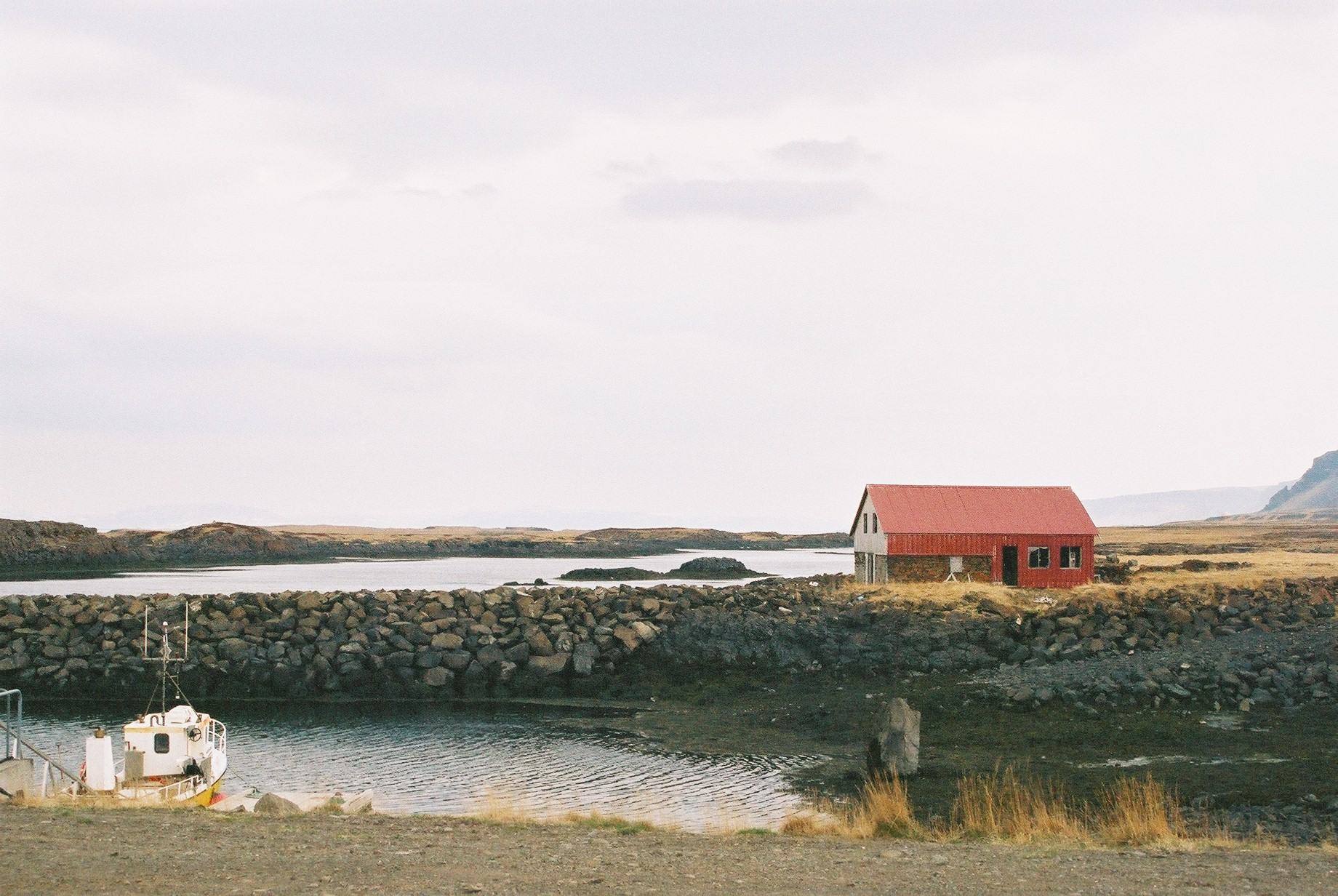 Klofningur, Breiðafjörður, Iceland